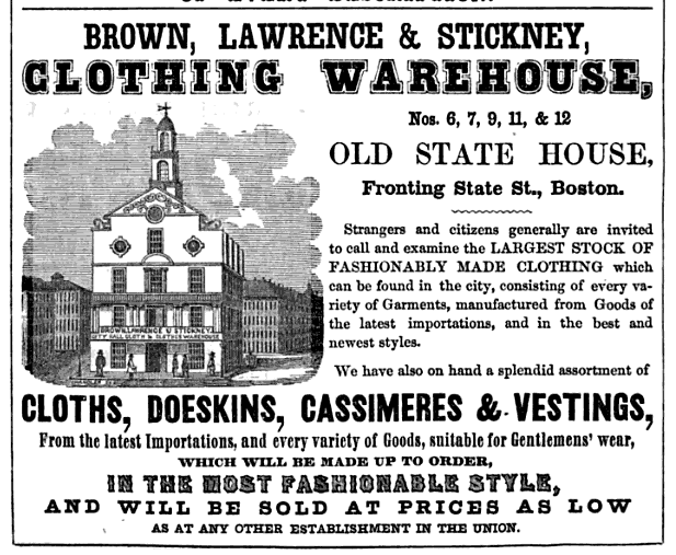 Ad for Brown, Lawrence & Stickney, clothing retailers; Old State House, Boston